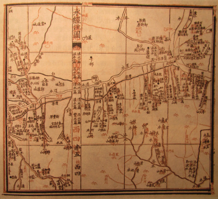 The map shows the Wei River in Shaanxi, China, as it flows eastward towards the Yellow River. It is from the Shui Jing Zhu, or Commentary on the Waterways Classic. The map is probably from the Three Kingdoms period (third century AD).